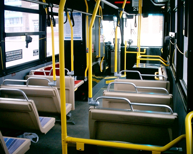 I, (Derek Silver), took this photograph on 20 April 2006. It is of the interior of Thunder Bay Transit Bus #218 running as route 11 John Outbound to Forest Park, at the Water Street Bus Terminal, in Thunder Bay, Ontario. I hereby release it into public domain for the masses to enjoy. :) Vidioman 08:06, 9 April 2007 (UTC)